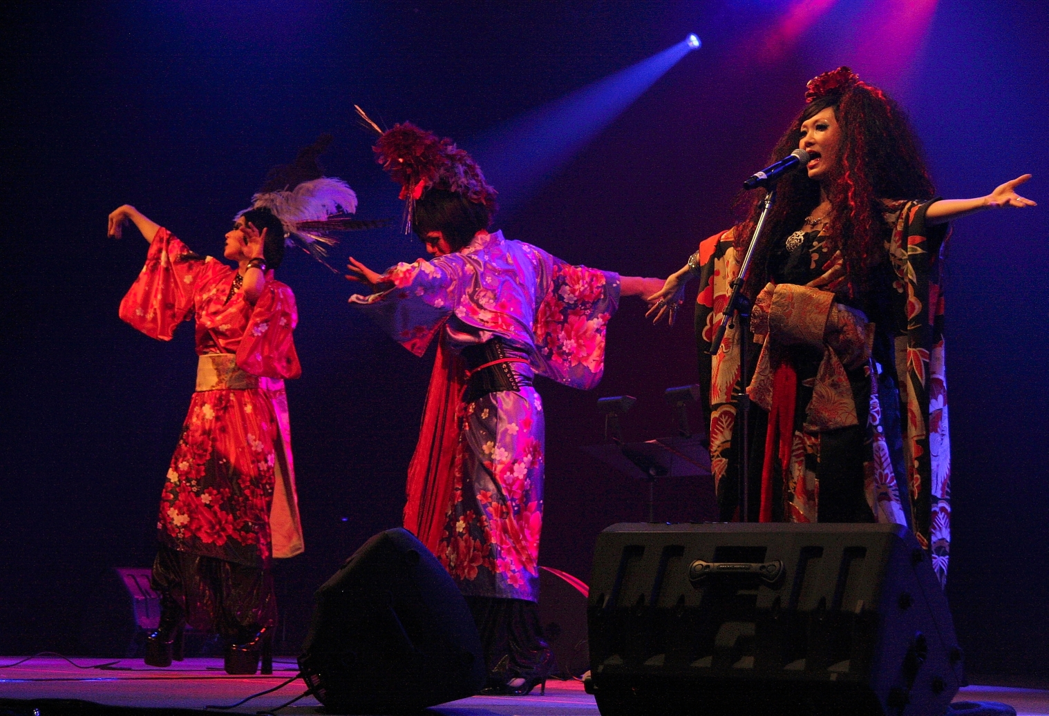 Sakura-con 2008 March 29th, 2008 Seattle Washington USA Ali Project's first US concert Taken By: Joseph R. Scozzari IV